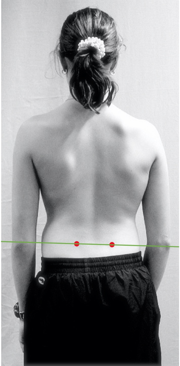 Comparison of two different braces for the treatment of scoliosis. Even with the light version of the brace the same in-brace corrections can be achieved as with much bigger high correction braces.